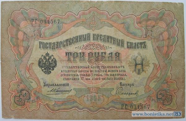 Russian Empire banknote 3 rubles version of 1905 year. Konshin